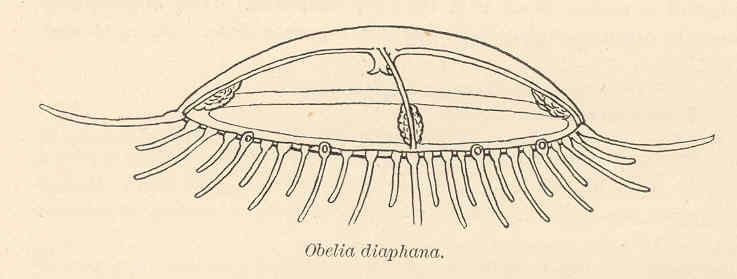 Obelia diaphana Subject: Jellyfishes, Obelia Tag: Invertebrates